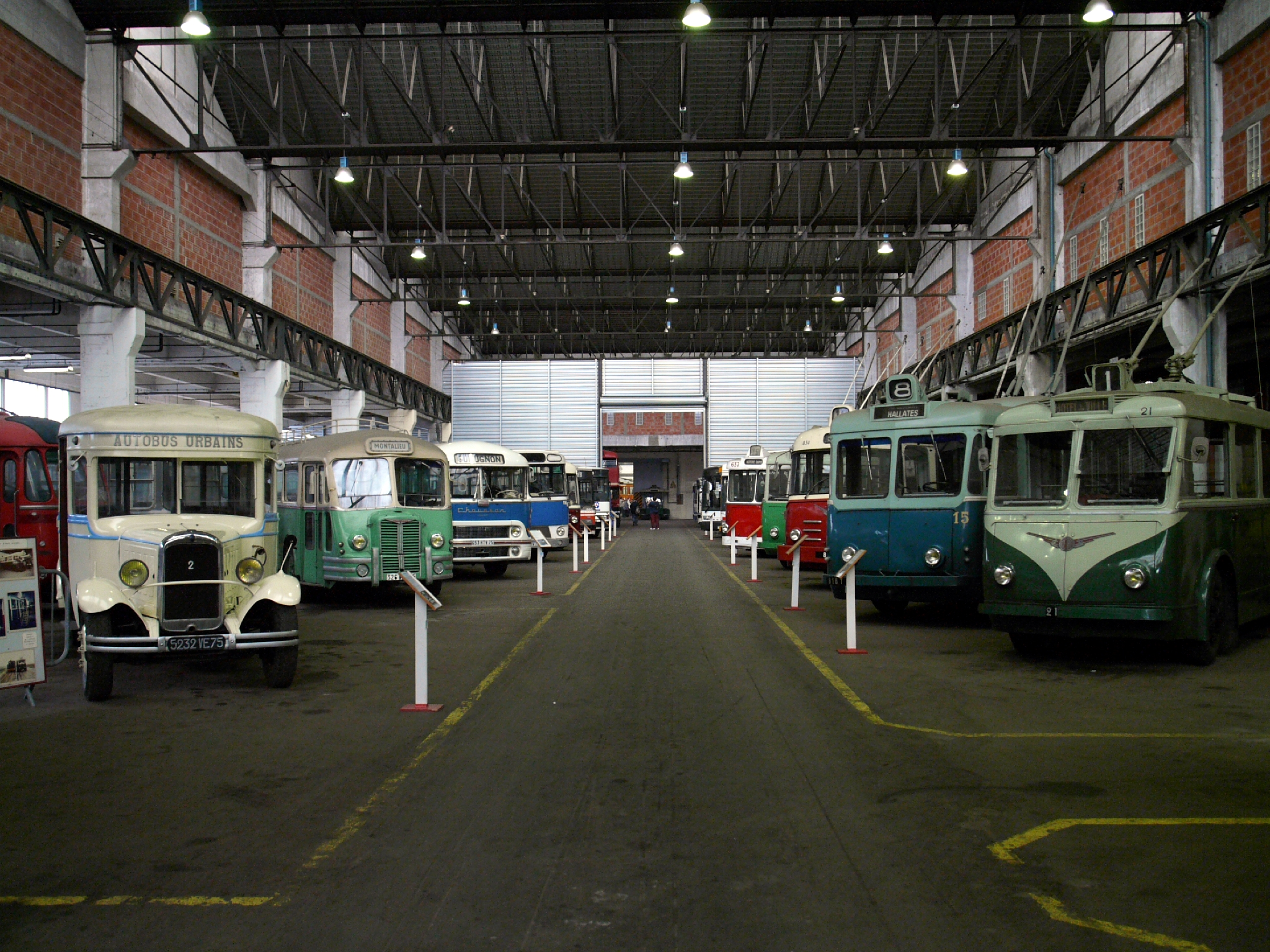 AMTUIR, museum of urban transportation, Colombes, France